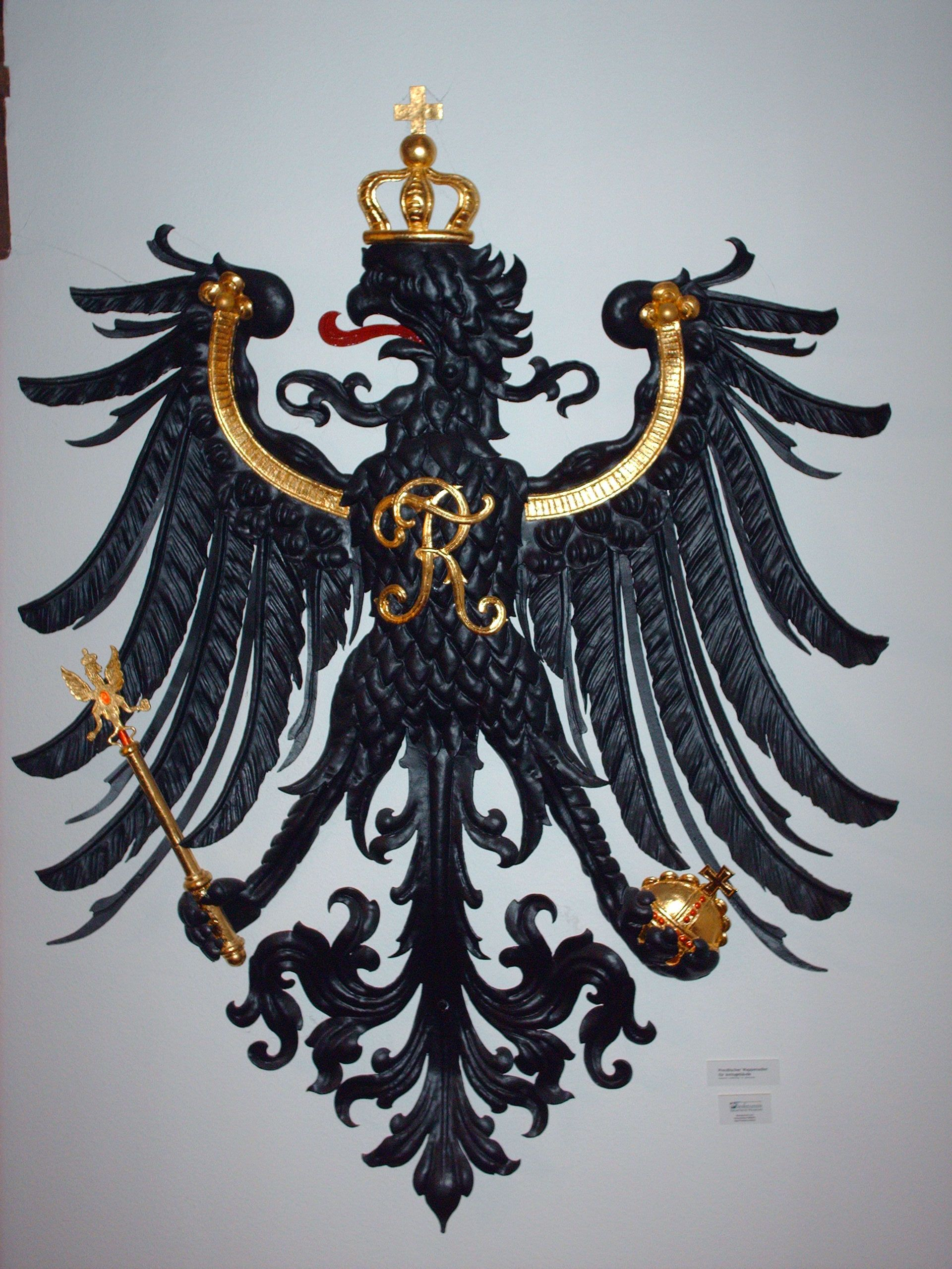 Prussian Eagle, Arnsberg, Germany check usage